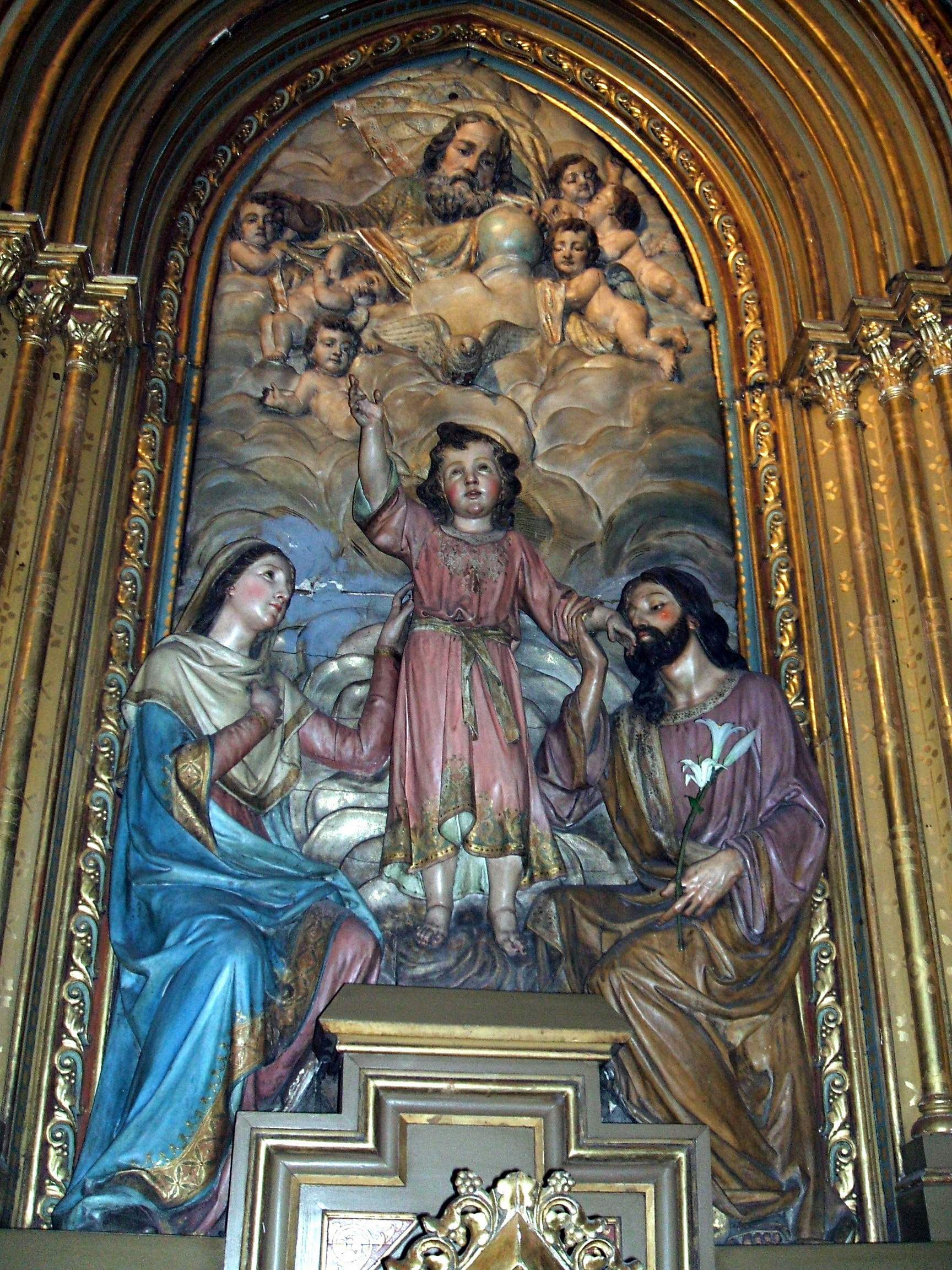 Relieve de la Sagrada Familia, en la Iglesia del Sagrado Corazón, Bilbao (País Vasco, España)